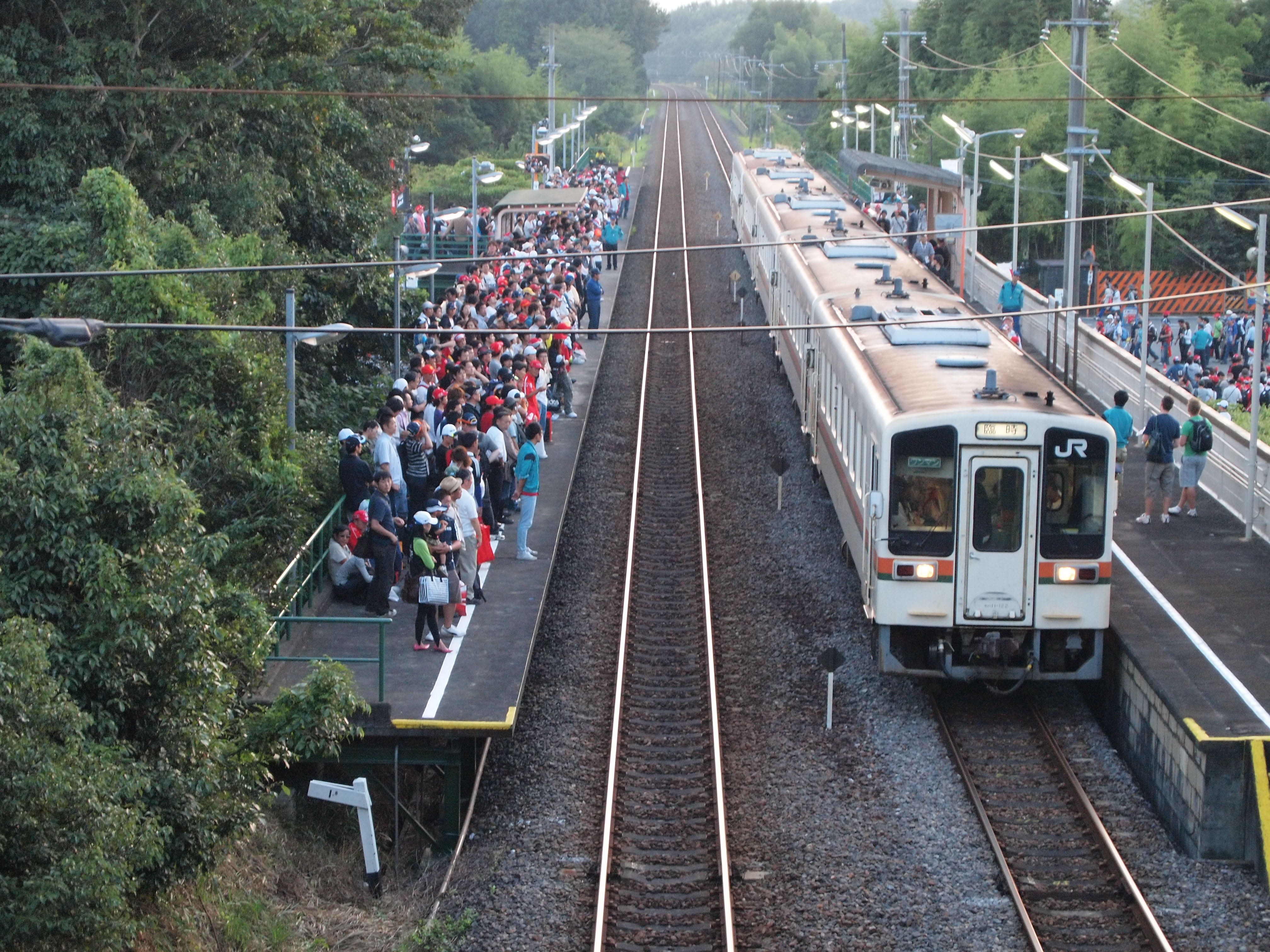 Suzuka Circuit Inō Station after 2009 Japanese Grand Prix. Olympus E-P1